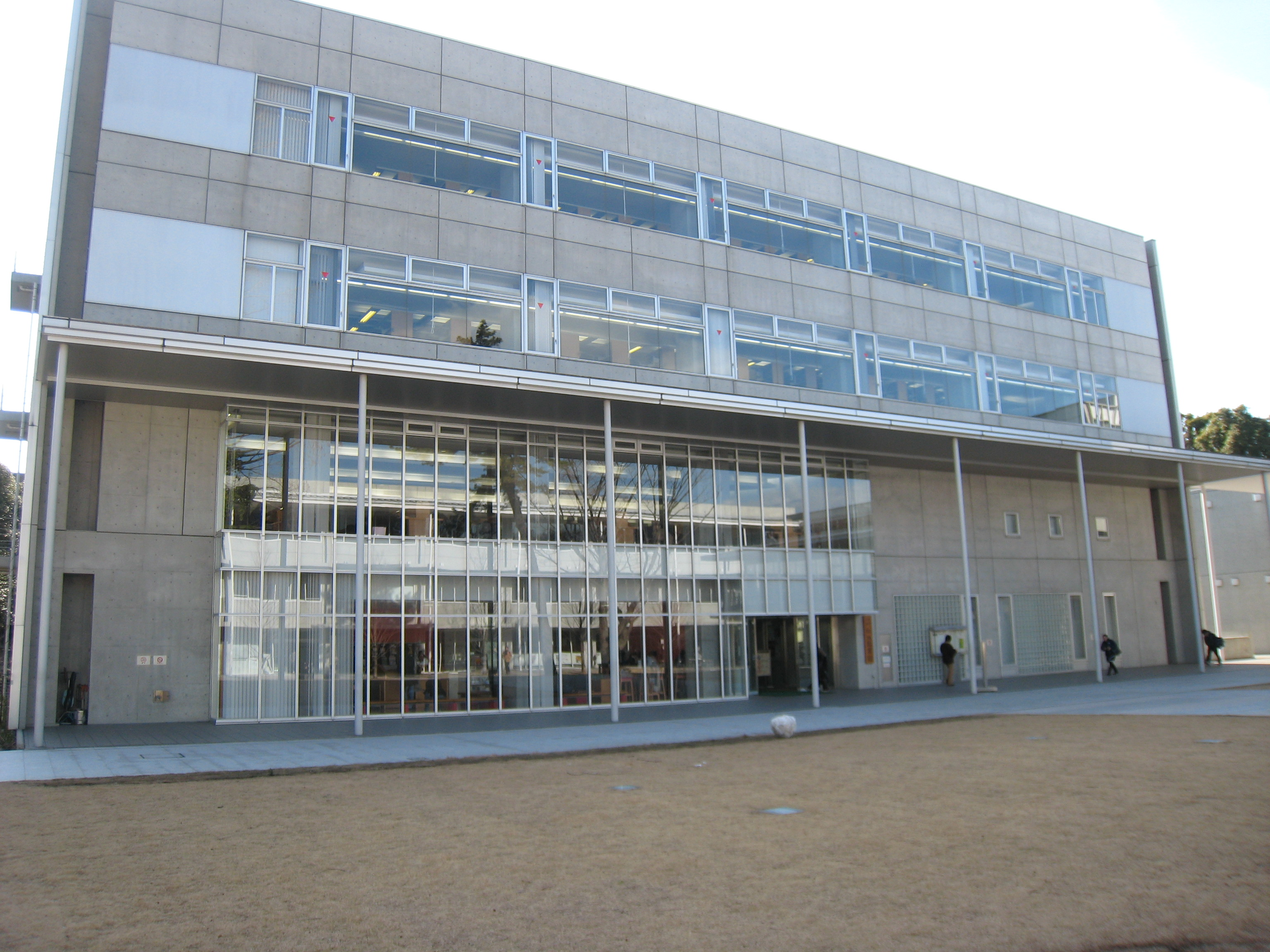 Library on the Komaba Campus, University of Tokyo, Japan